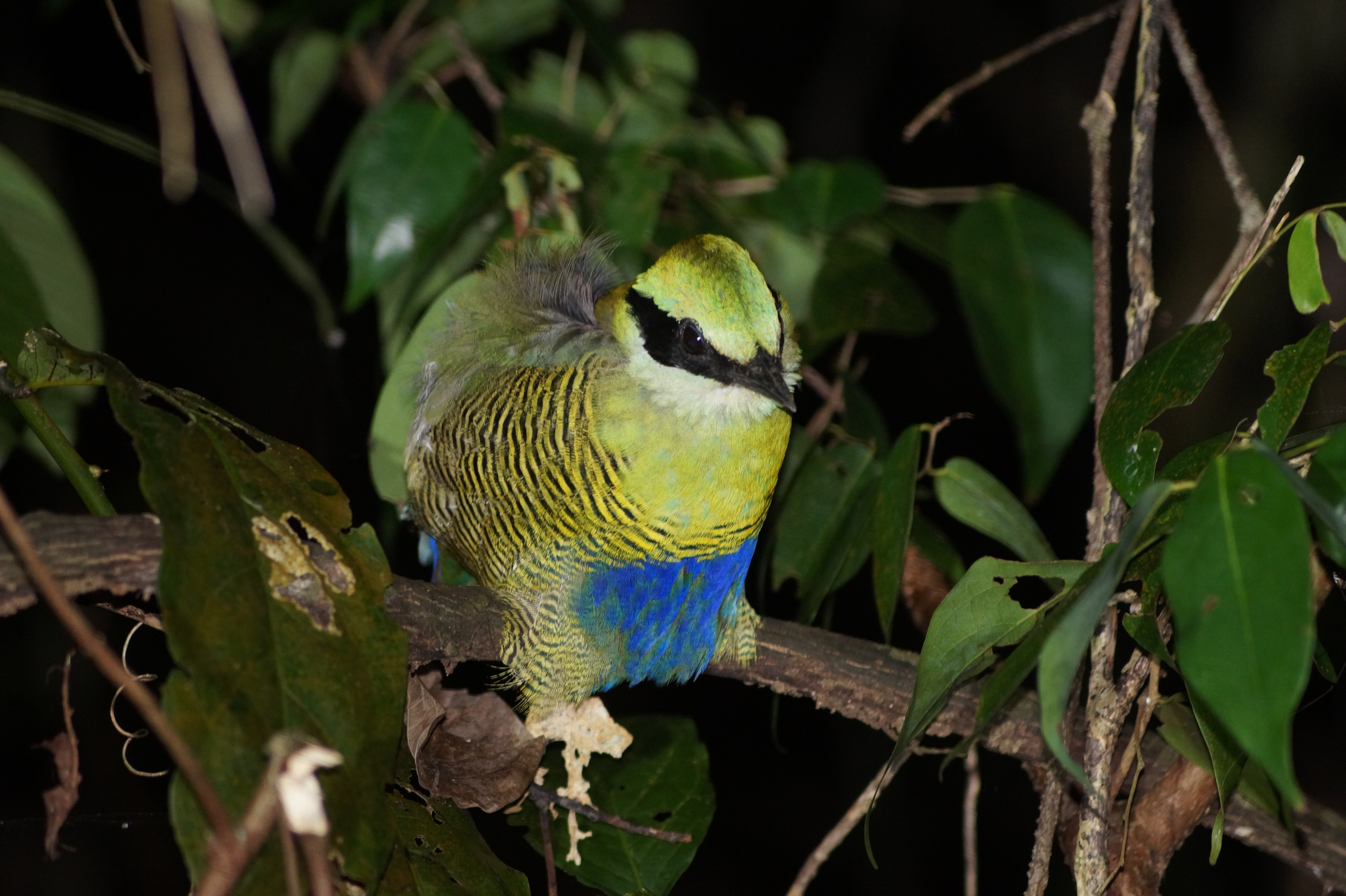 Bar Bellied Pitta in Cat tien National Park , Vietnam by Piyush chauhan